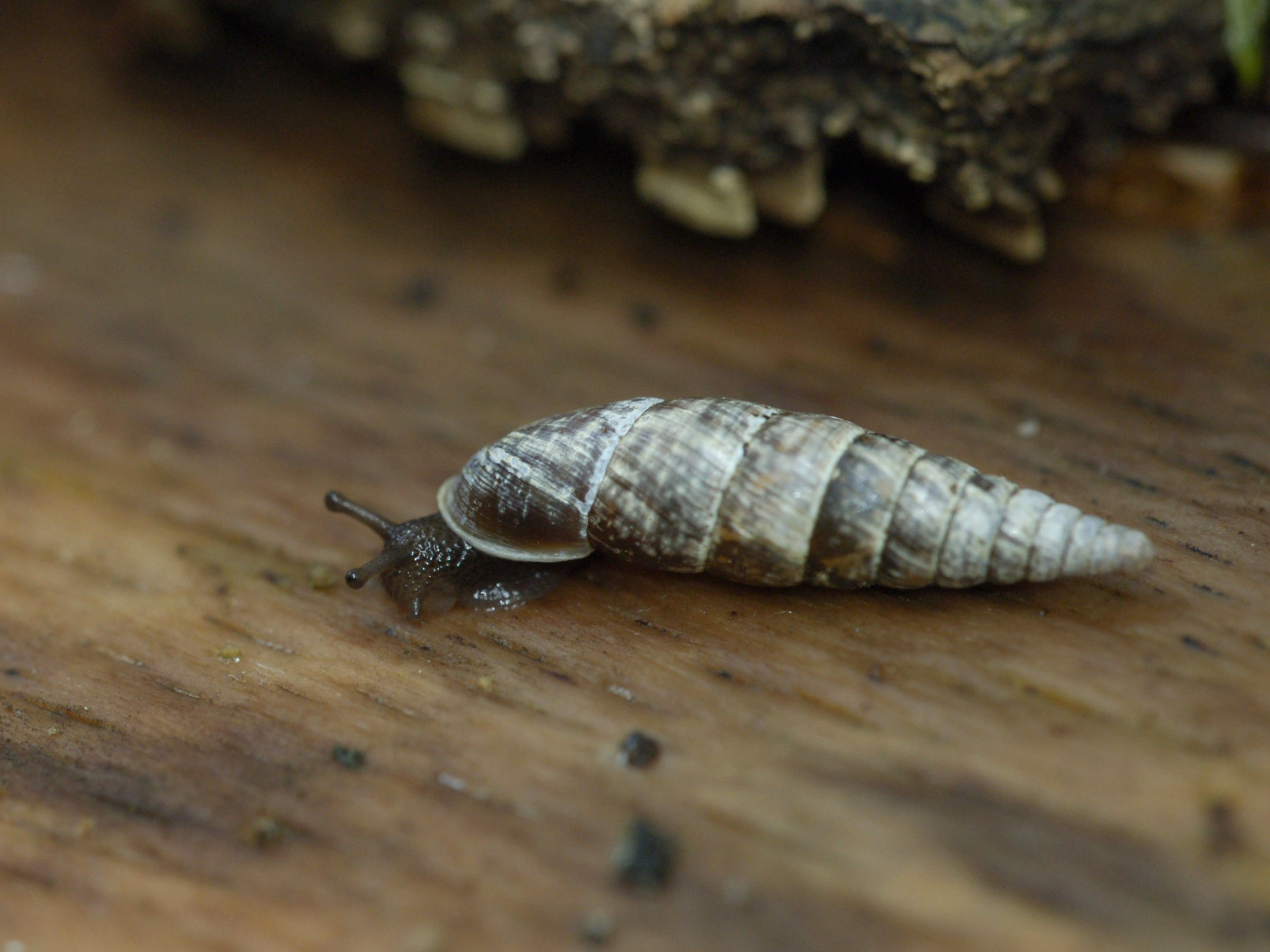 Cochlodina laminata, found in Fürstenberg/Havel, Germany